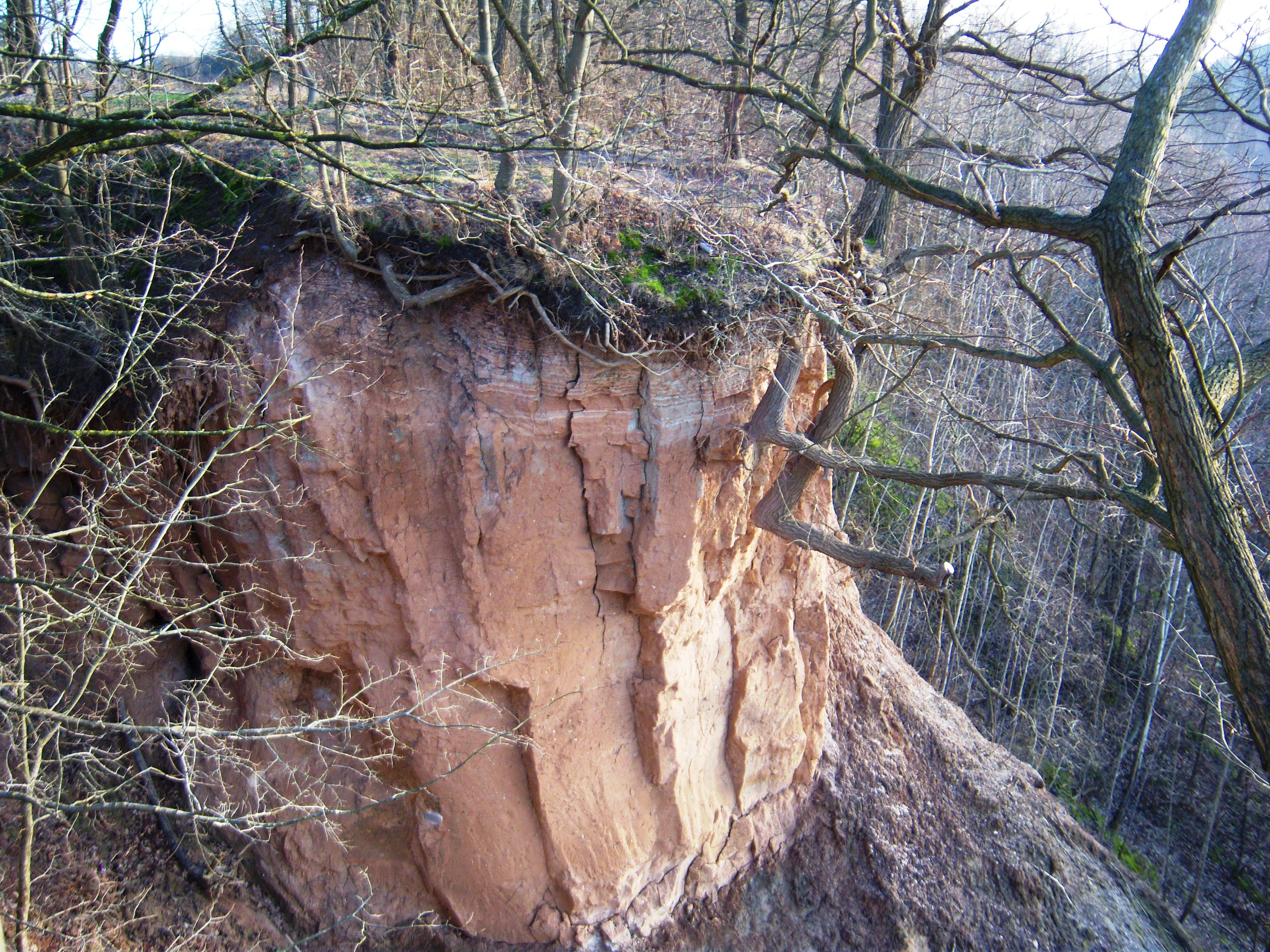 Jiesia River outcrop, clay layers, in Rokai, Kaunas, Lithuania